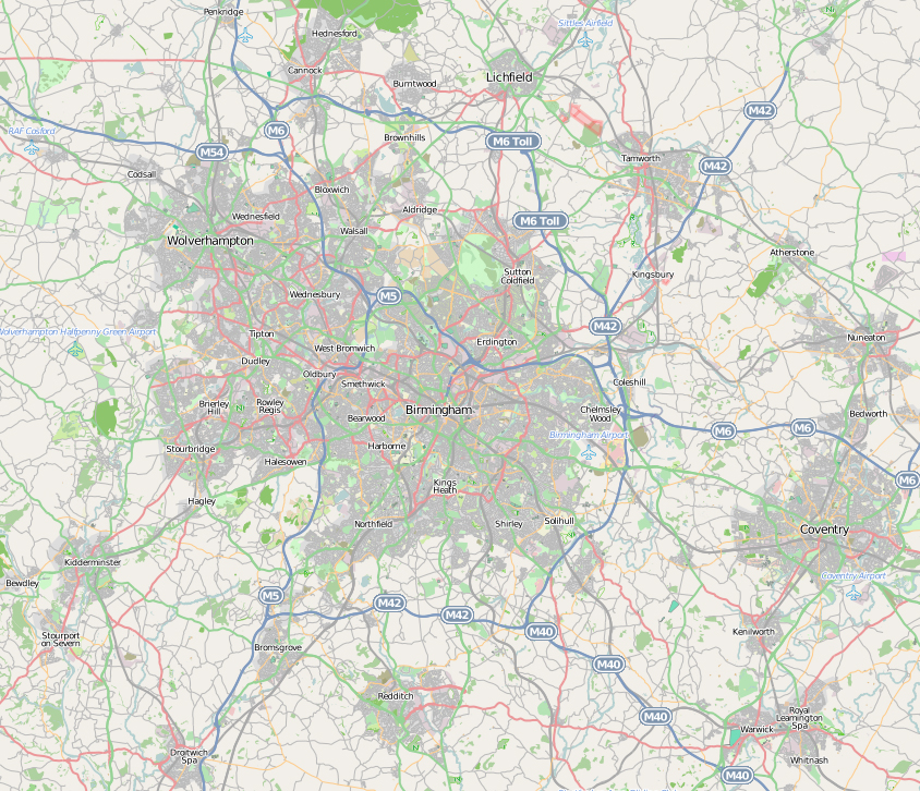 Birmingham, the West Midlands Urban Area and the surrounding metropolitan area